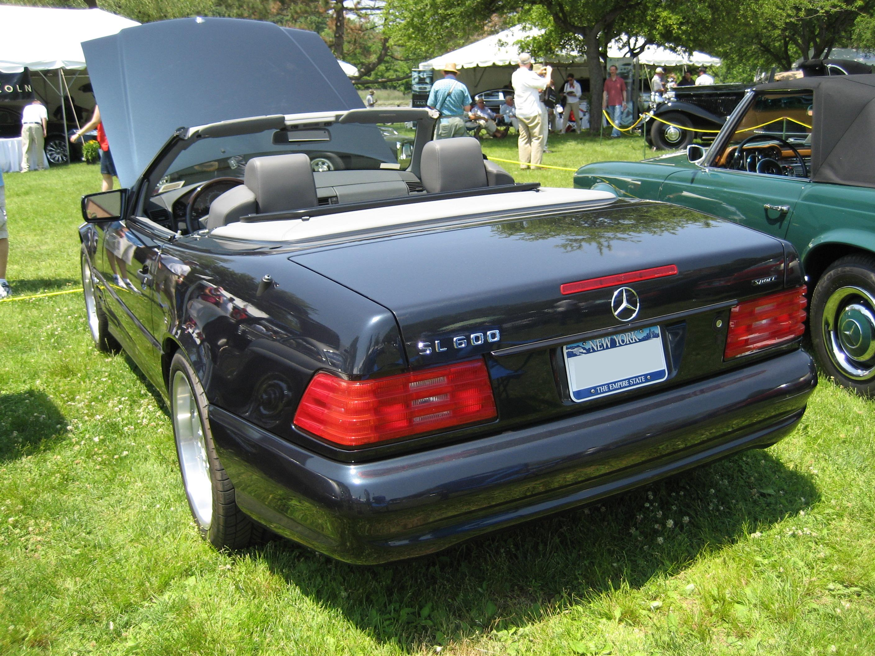 1997 Mercedes-Benz SL600 photographed at the 2008 Greenwich Concours d'Elegance in Greenwich, Connecticut.